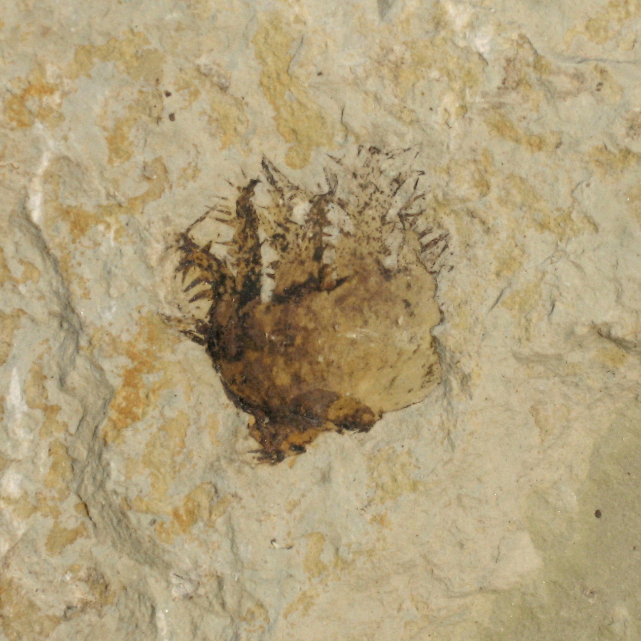 A 2.1cm tall Corylus johnsonii nut with husk. Klondike Mountain Formation, Republic, Ferry County, Washington, USA, Eocene, Ypresian, 49million years old. Stonerose Interpretive Center Collection #